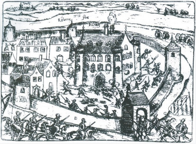 Etching that depicts the siege of the Castle of Rurich in 1609